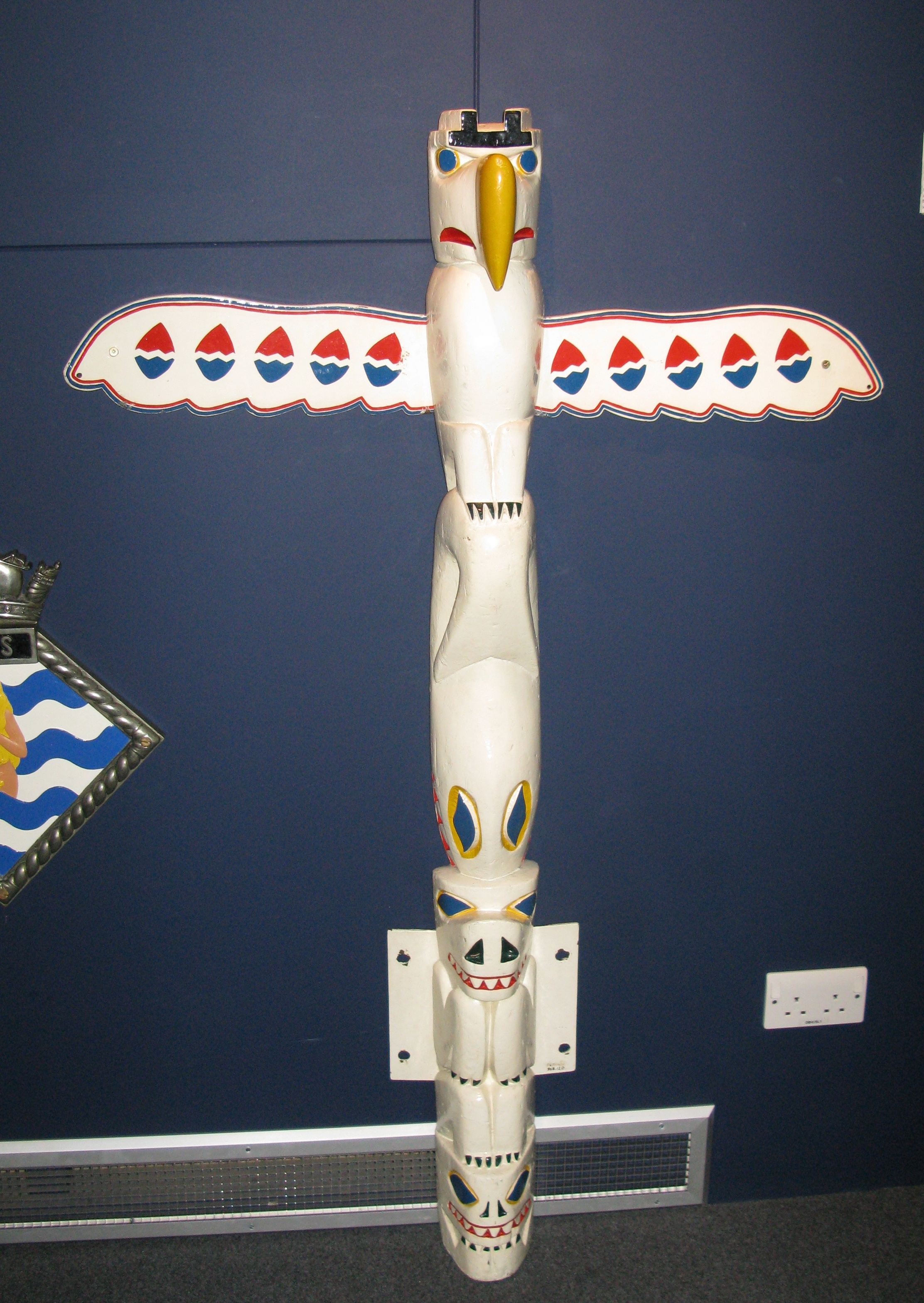 Photo of the totem pole made for submarine HMS Totem by dockyard workers to replace one made in 1945 that had been lost.